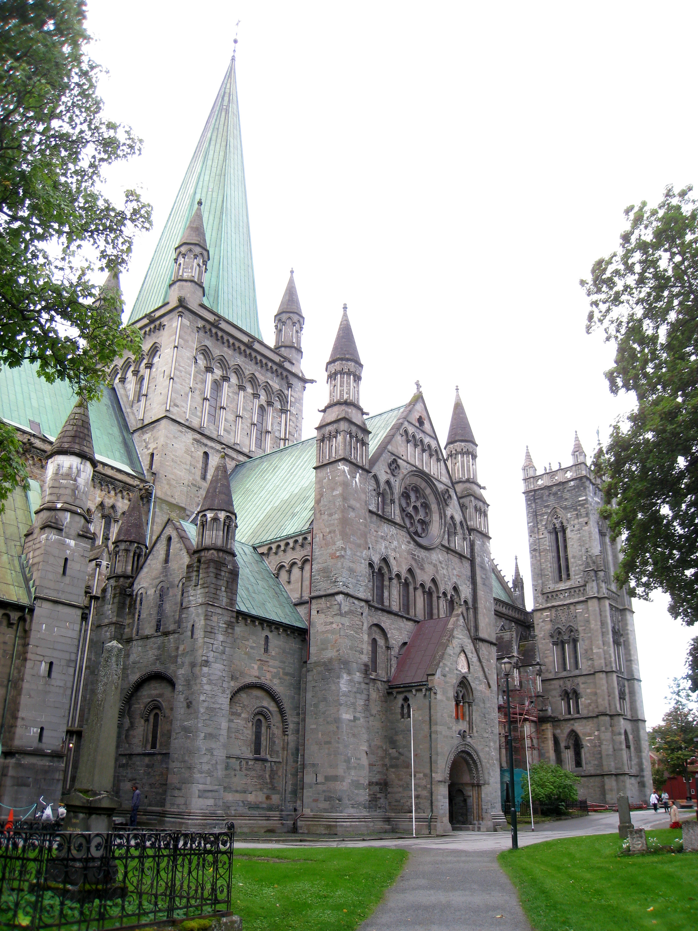 Nidaros Cathedral, Trondheim, Norway.